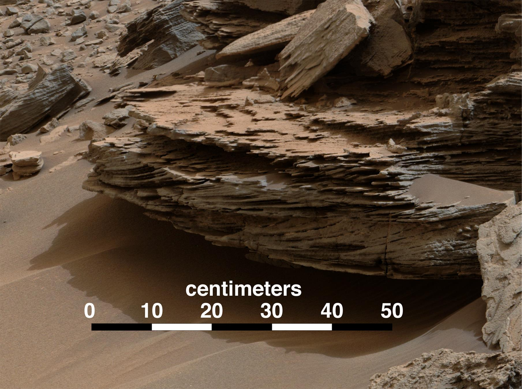 December 8, 2014 Cross-Bedding at 'Whale Rock' (Labeled) Image Caption: Cross-Bedding at 'Whale Rock' This view from the Mast Camera (Mastcam) on NASA's Mars rover Curiosity shows an example of cross-bedding that results from water passing over a loose bed of sediment. The cross-bedding -- evident as layers at angles to each other -- reflects formation and passage of waves of sand, one on top of the other. These are known as ripples, or dunes. The direction of migration of these small ripples and dunes was toward the southeast. That direction is toward Mount Sharp and away from the area where Curiosity found evidence of delta deposits where a stream entered a lake. The directional flows recorded in the sediments are interpreted to have formed by currents moving down the deltas and into deeper lake water. The color has been approximately white-balanced to resemble how the scene would appear under daytime lighting conditions on Earth. Figure A is a cropped version with a superimposed scale bar of 50 centimeters (about 20 inches) just beneath the cross-bedding. The Mastcam's right-eye camera captured the component frames of this mosaic image at a target called "Whale Rock" during the 796th Martian day, or sol, of the rover's work on Mars (Nov. 2, 2014). The location of Whale Rock within the "Pahrump Hills" outcrop at the base of Mount Sharp is indicated on an earlier Mastcam view at NASA's Jet Propulsion Laboratory, a division of the California Institute of Technology, Pasadena, manages the Mars Science Laboratory Project for NASA's Science Mission Directorate, Washington. JPL designed and built the project's Curiosity rover. Malin Space Science Systems, San Diego, built and operates the rover's Mastcam. For more information about Curiosity, visit and